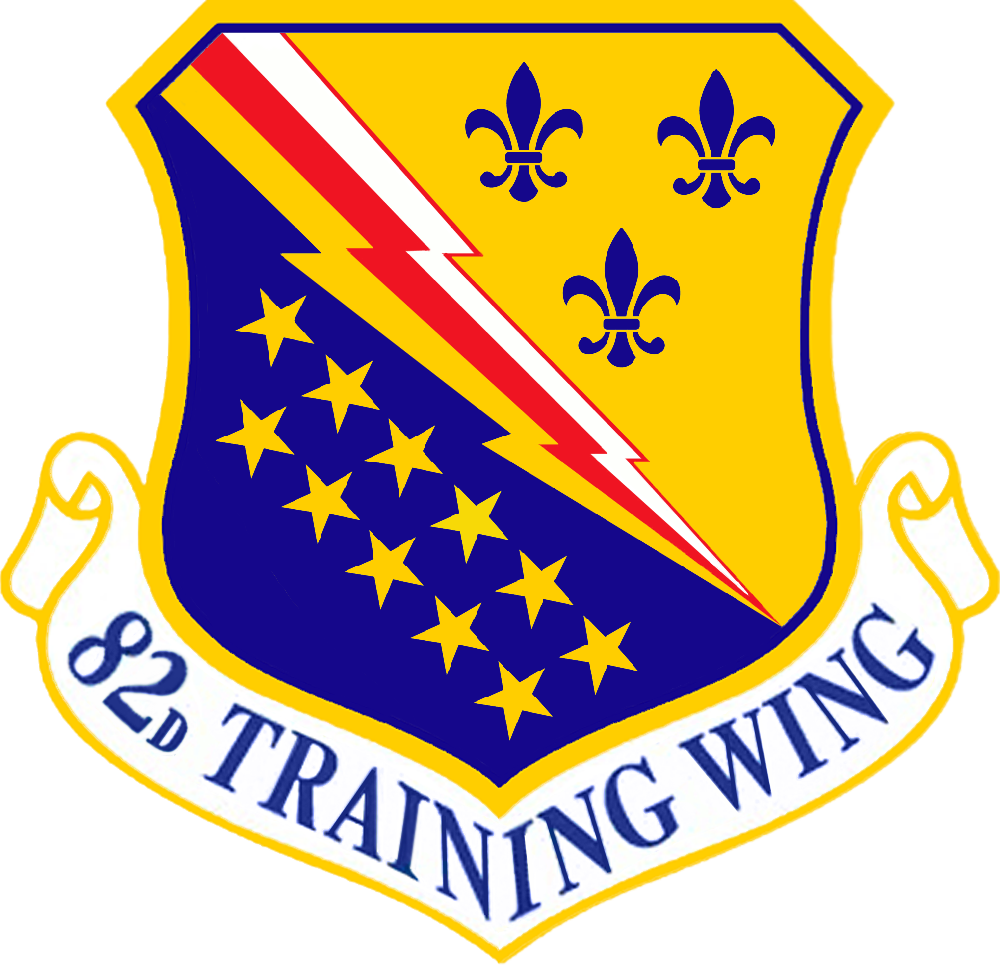 Emblem of the 82d Training Wing, a wing of the United States Air Force